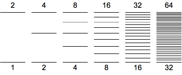 Harmonic series, spacing of harmonics through successive octaves. Each column represents a different octave.